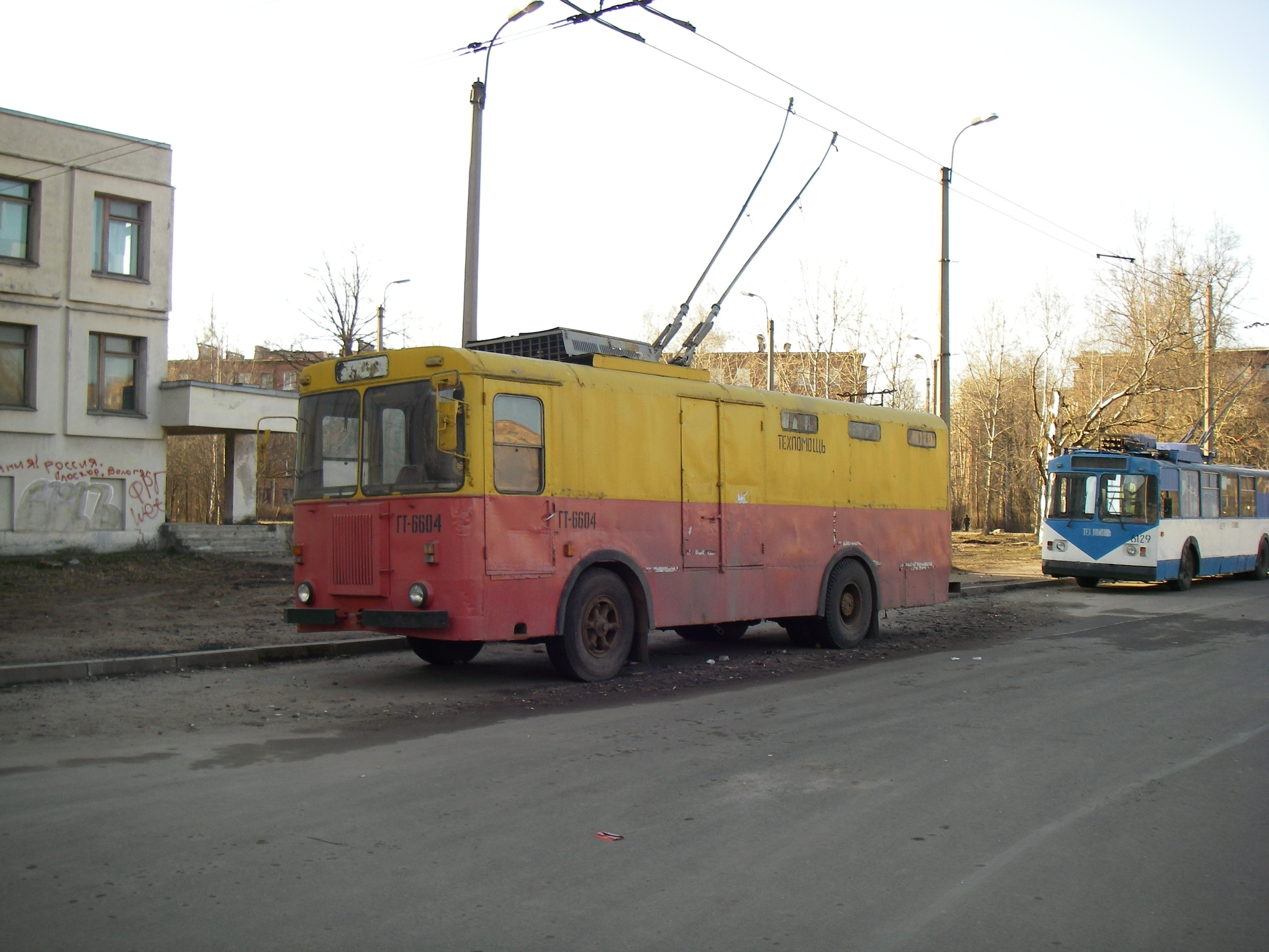 Freight trolleycar KTG-1 in Saint-Petersburg